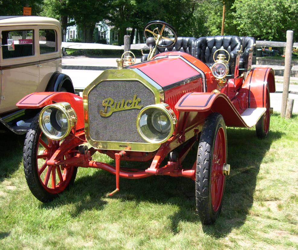 1911 Buick Tonneau Model 39 Source: Photographed at the Bay State Antique Automobile Club's July 10, 2005 show at the Endicott Estate in Dedham, MA by User:Sfoskett